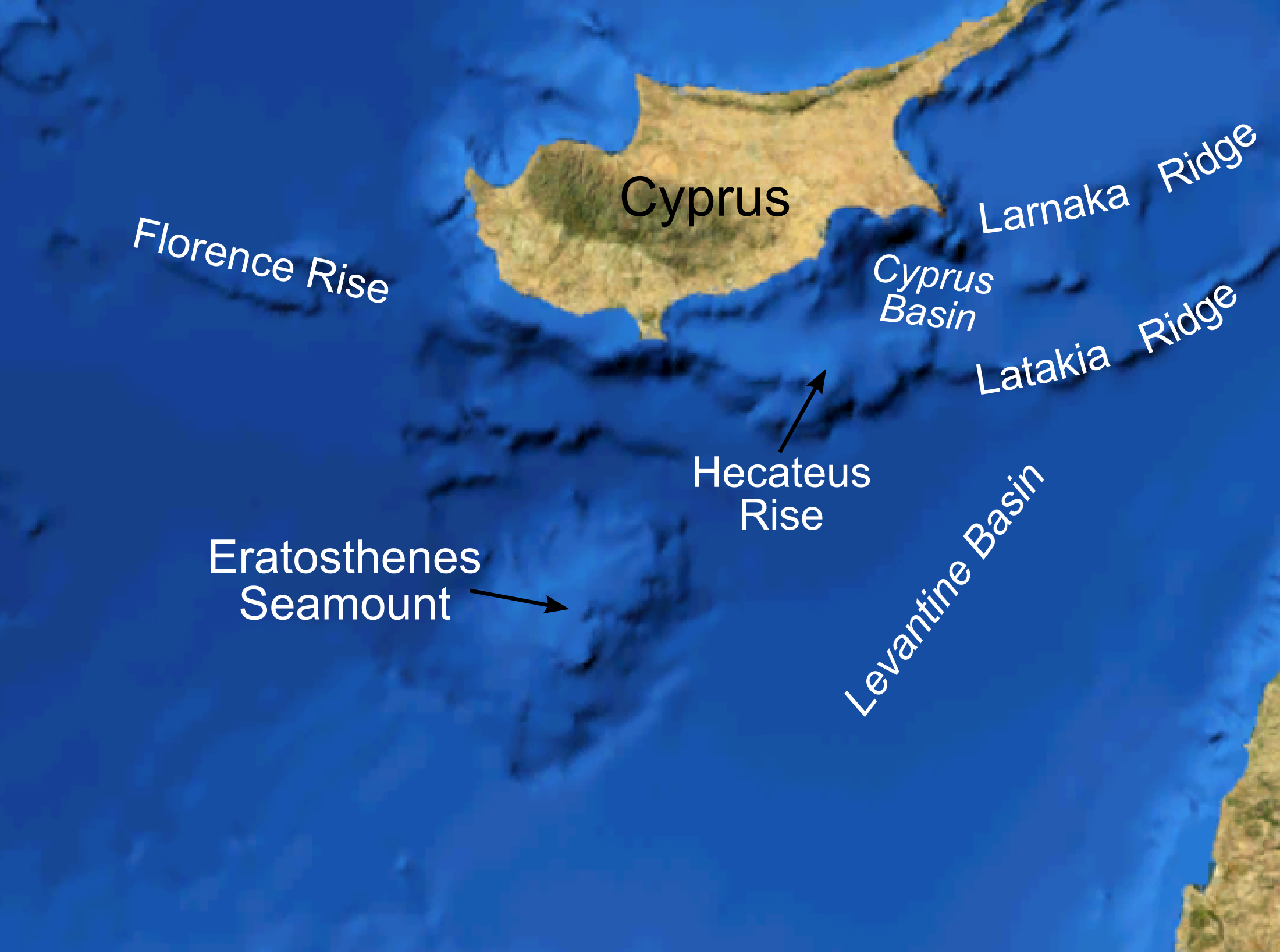 Map of major bathymetric features to the south of Cyprus in the eastern Mediterranean, based on a screenshot from the NASA World Wind software. Names of features from various published papers